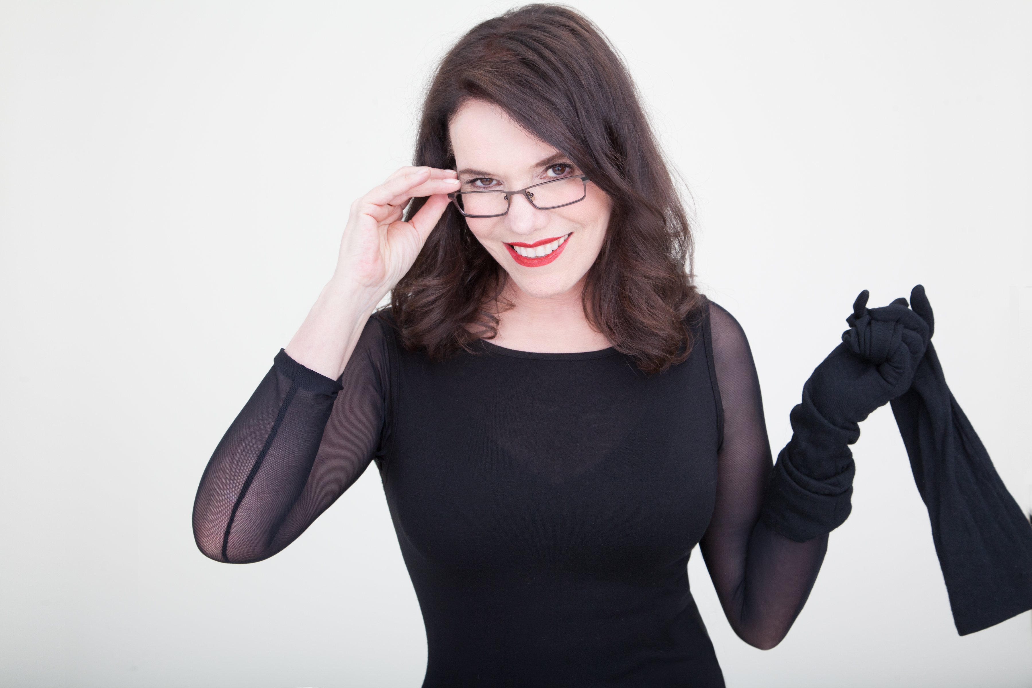 Lorraine Feather Flirting with Disaster photo shoot - photo by Mikel Healey